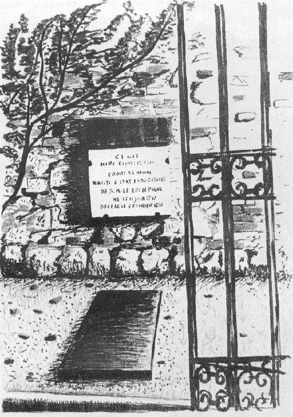 La tomba del Prussiano (Stampa)